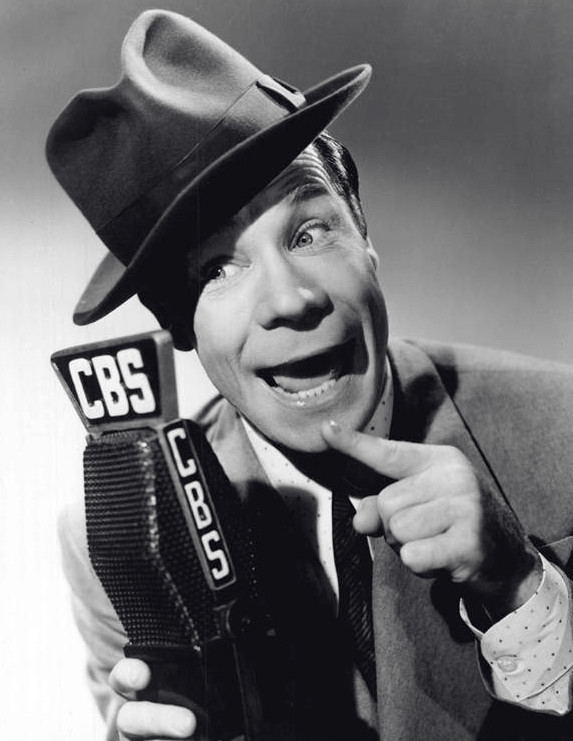 Publicity photo of Joe E. Brown from the radio program Those Websters.